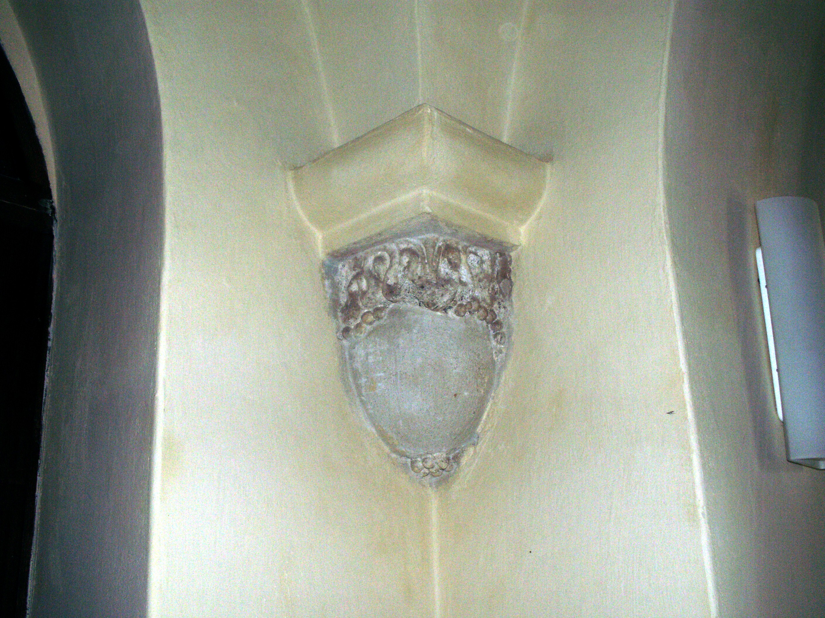 Kražiai collegium